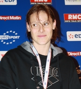 Aurore Mongel aux Championnats de France en petit bassin 2011